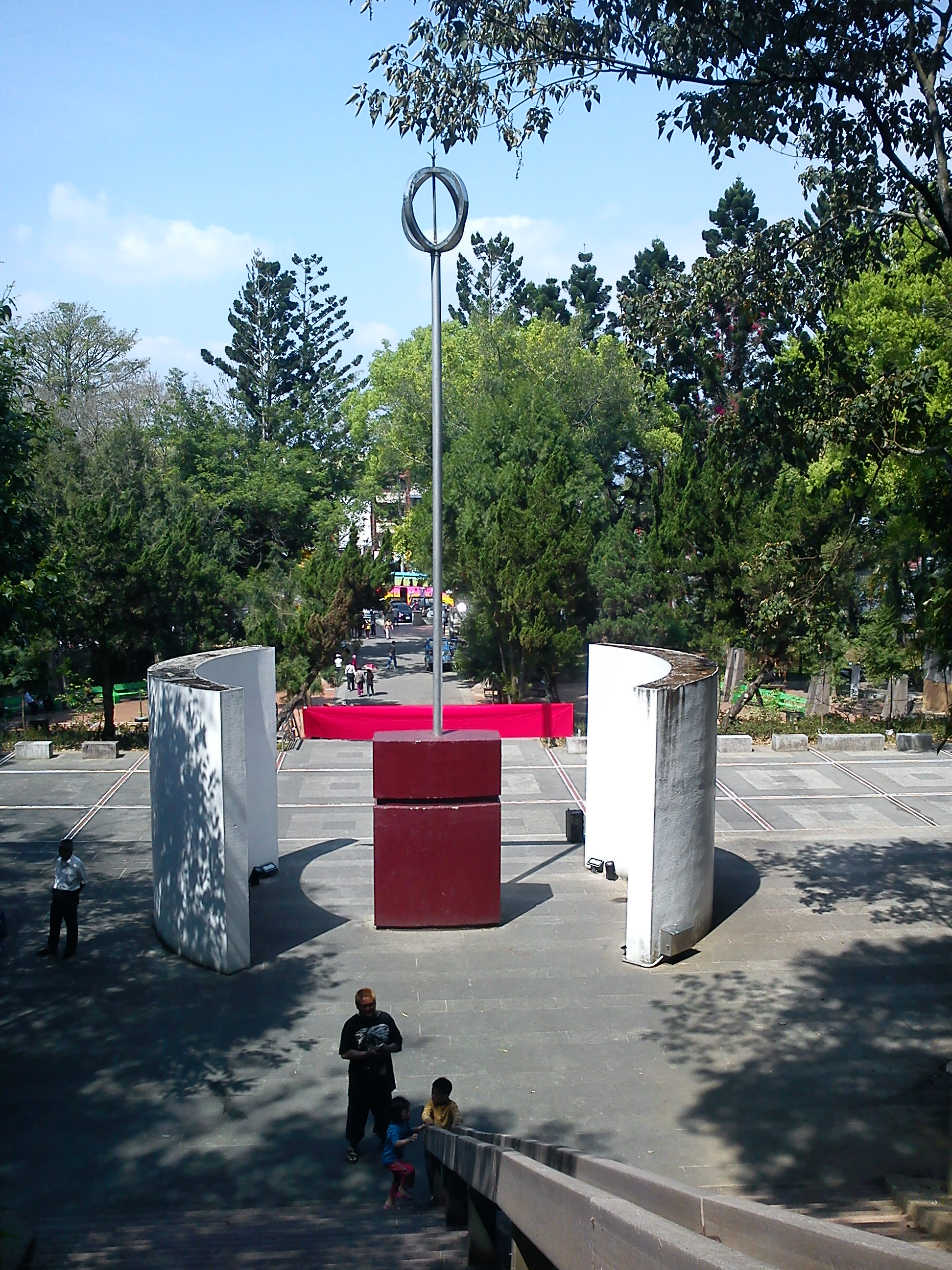 Monument of the Geological Center of Taiwan,looking from the stairs behind